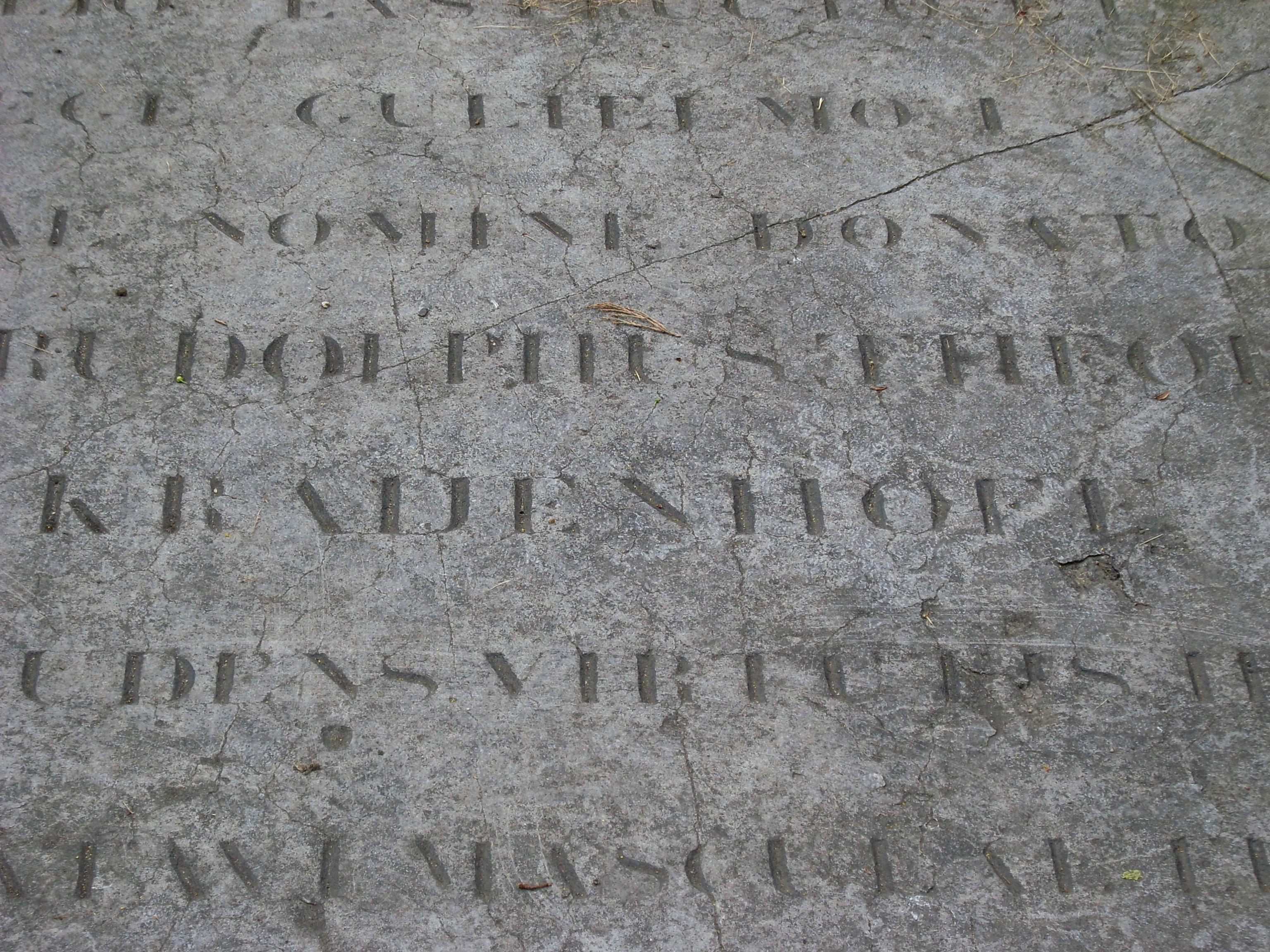 Grave monument of baron Kraijenhoff